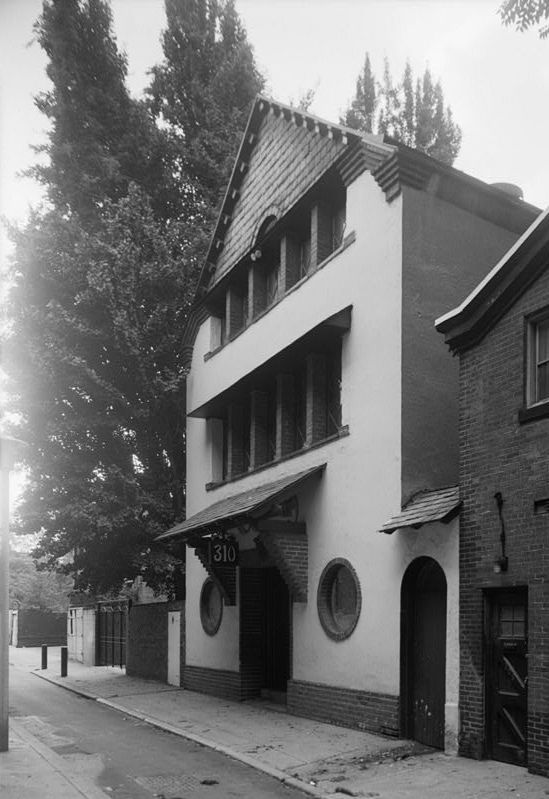 Mask and Wig Clubhouse (aka Welsh Coachhouse & Stable), 310 South Quince Street, Philadelphia, Pennsylvania (stable built between 1843 and 1853, remodeled into clubhouse by Wilson Eyre Jr. 1894, altered by Eyre 1901), murals by Maxfield Parrish.